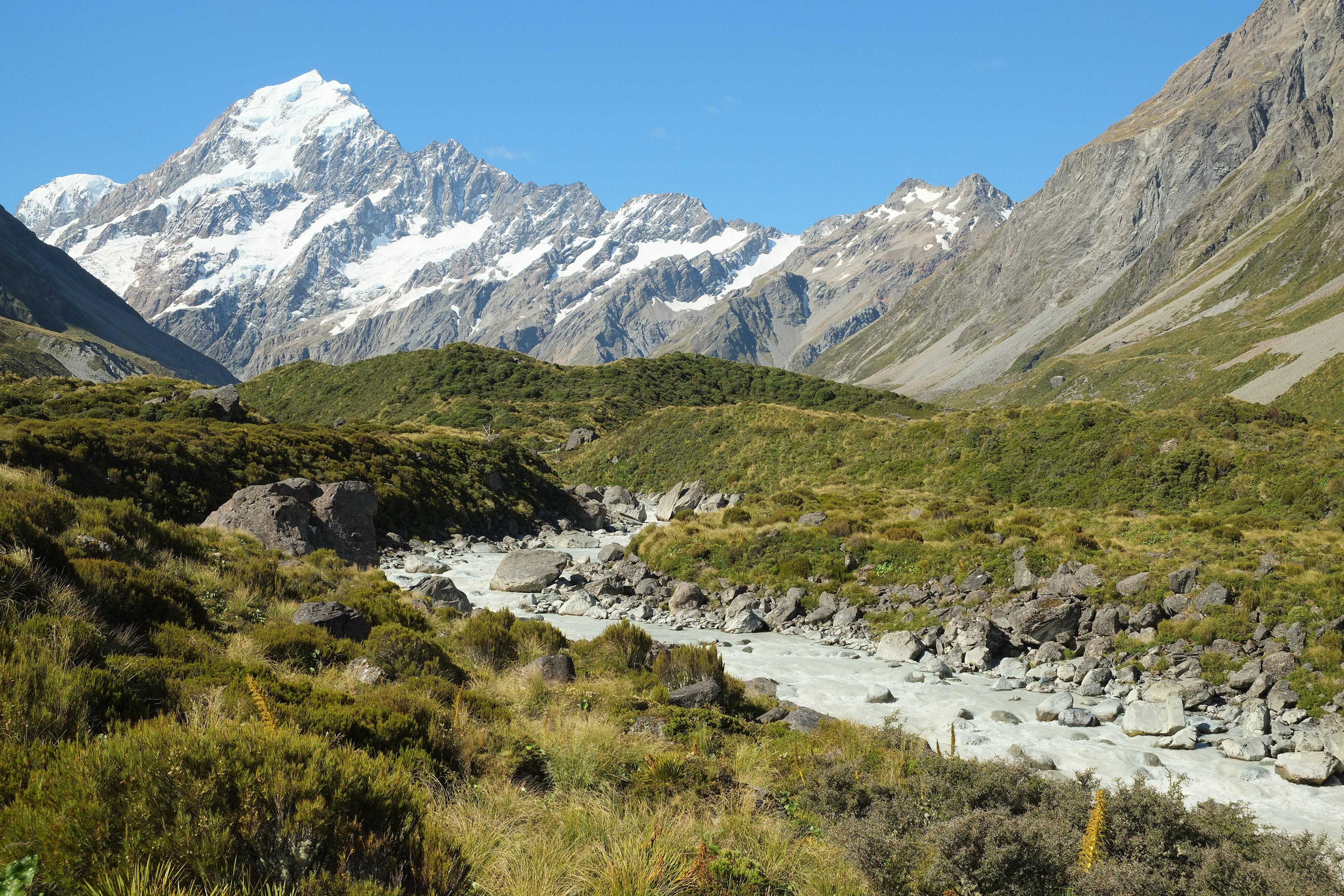 Hooker Valley in summer, with Mount Cook Range in the background